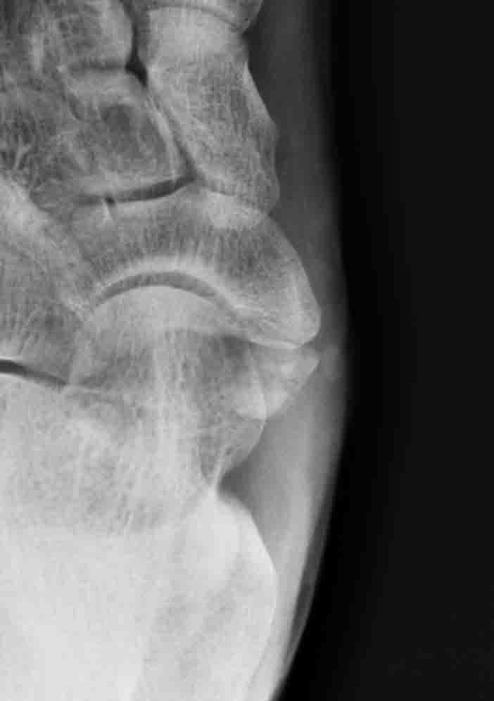 Accessory Navicular bones. There is a sesamoid bone in addition to the accessory navicular in this case.